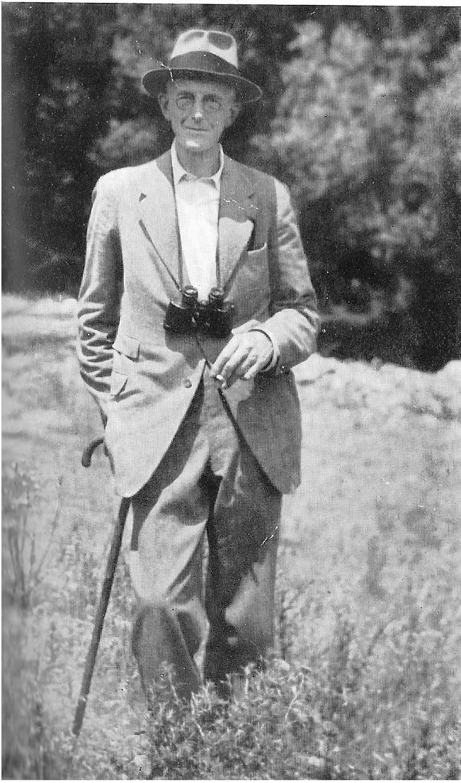 Its Harry Witherby of 'The Handbook' fame. To make it more local, he shot Northumberland's first Blyth's Reed Warbler on Holy Island in September 1912